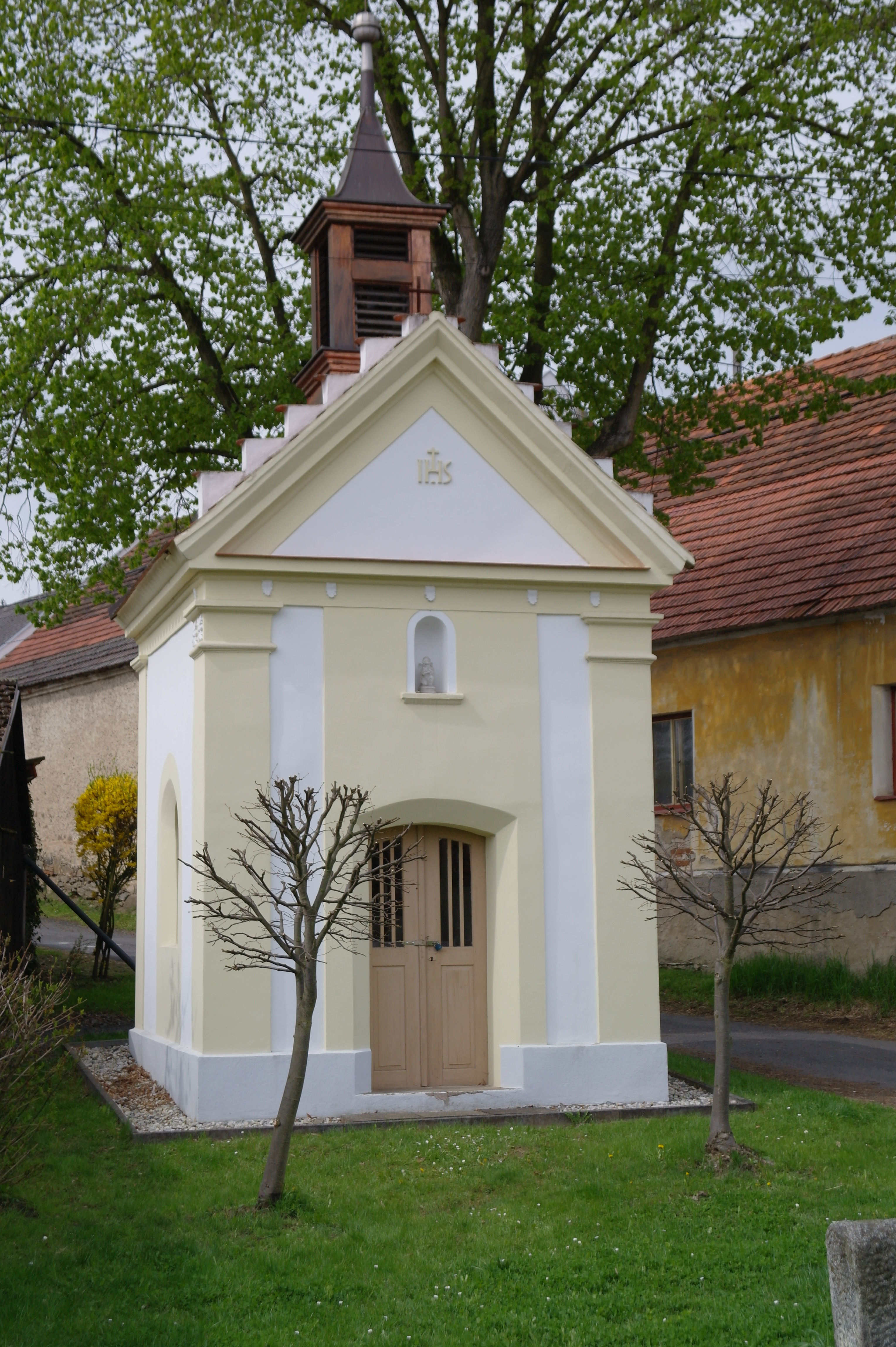 Točník